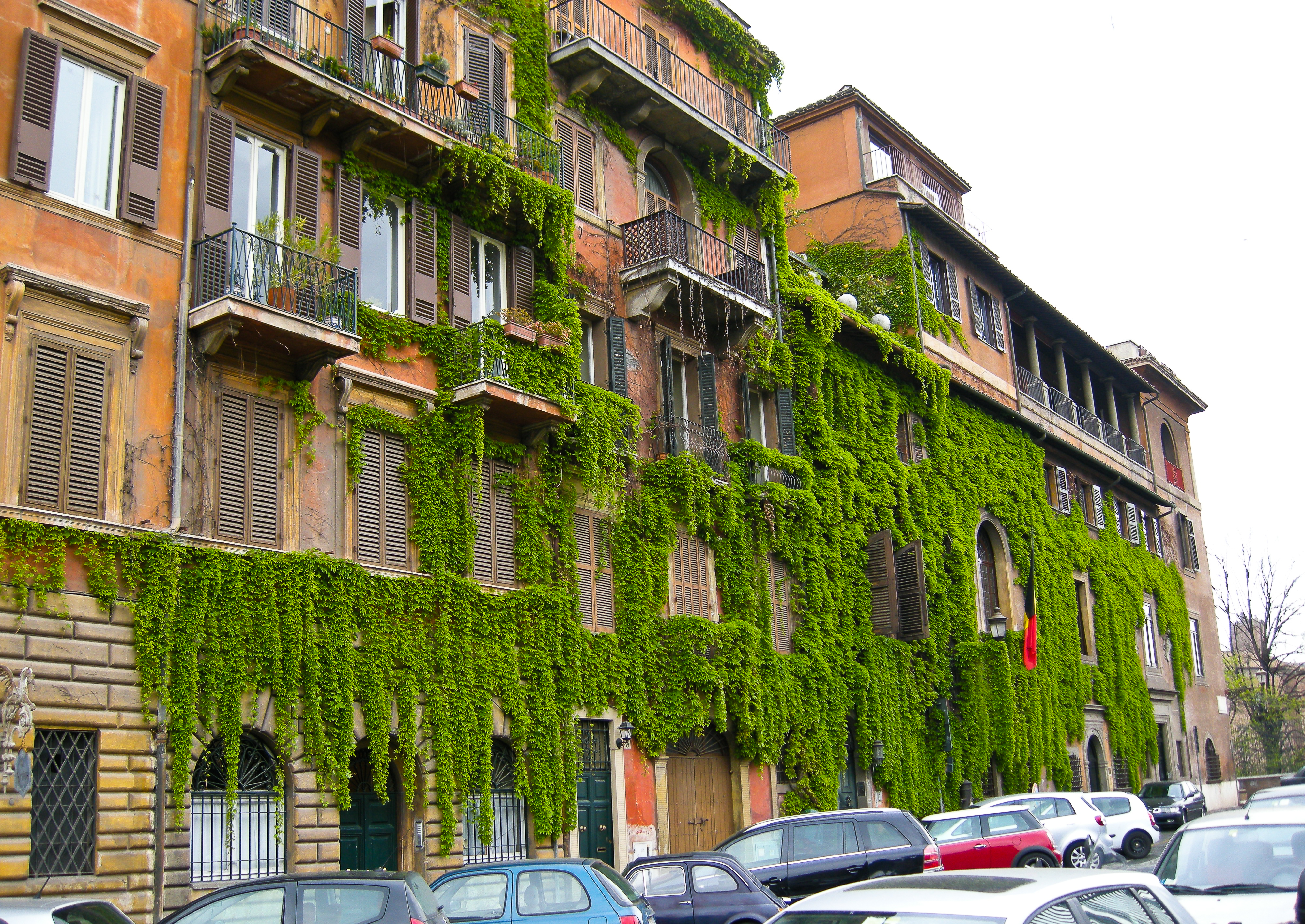 Embassy of Belgium, Rome